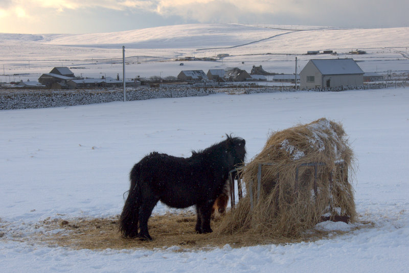 Shetland ponies, Shetland At supplemental feeding in the snow. The view is across Baltasound towards the hill of Valla Field.